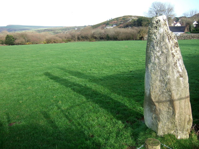 The Lady Stone near Dinas Easily-missed standing stone by the A487 a mile or so west of Dinas. A railing in front provides visibility but not access. Its shape suggests the cloaked or shrouded form of a woman, about 7 feet tall. It is said that travellers passing by would doff their caps to 'her'. The stone occupies a position with sightlines towards the Mynydd Dinas (southeast), Pen Dinas (northeast) and the sea a short way to the north. The nearby farm, on whose land it stands, is called Tre-meini (place of the stone).